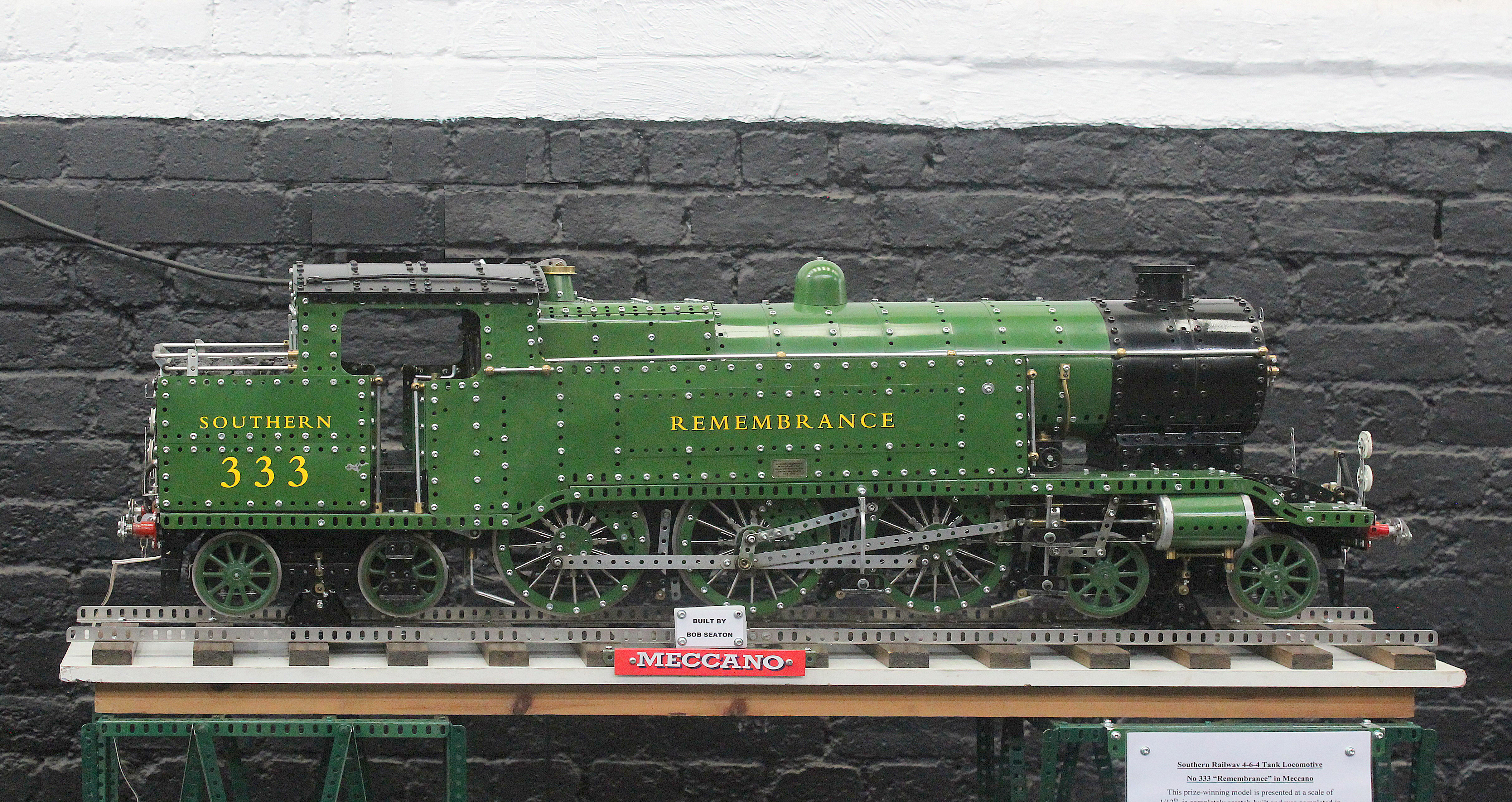 1/12 Scale Meccano model of the Southern Rail 4-6-4 Tank Locomotive No 333 "Remembrance" built by Bob Seaton of the Sheffield Meccano Guild. The model was built from pre-war Meccano parts that were repainted.